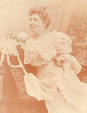 original caption: Mrs. Siranush [Alixanian],her real name was Mehropé Kantargian, famous [Armenian] actress [Siranush Alixanian, 1857-1932, known for her Shakespearean roles as well as being a representative of the 'breeches' trend (playing men’s roles like Hamlet, recurring from 1902 on) was a subject of adulation. In a short time, the figure of actress, making young girls dream and Armenian mothers tremble, became a synonym of the emancipated woman.]